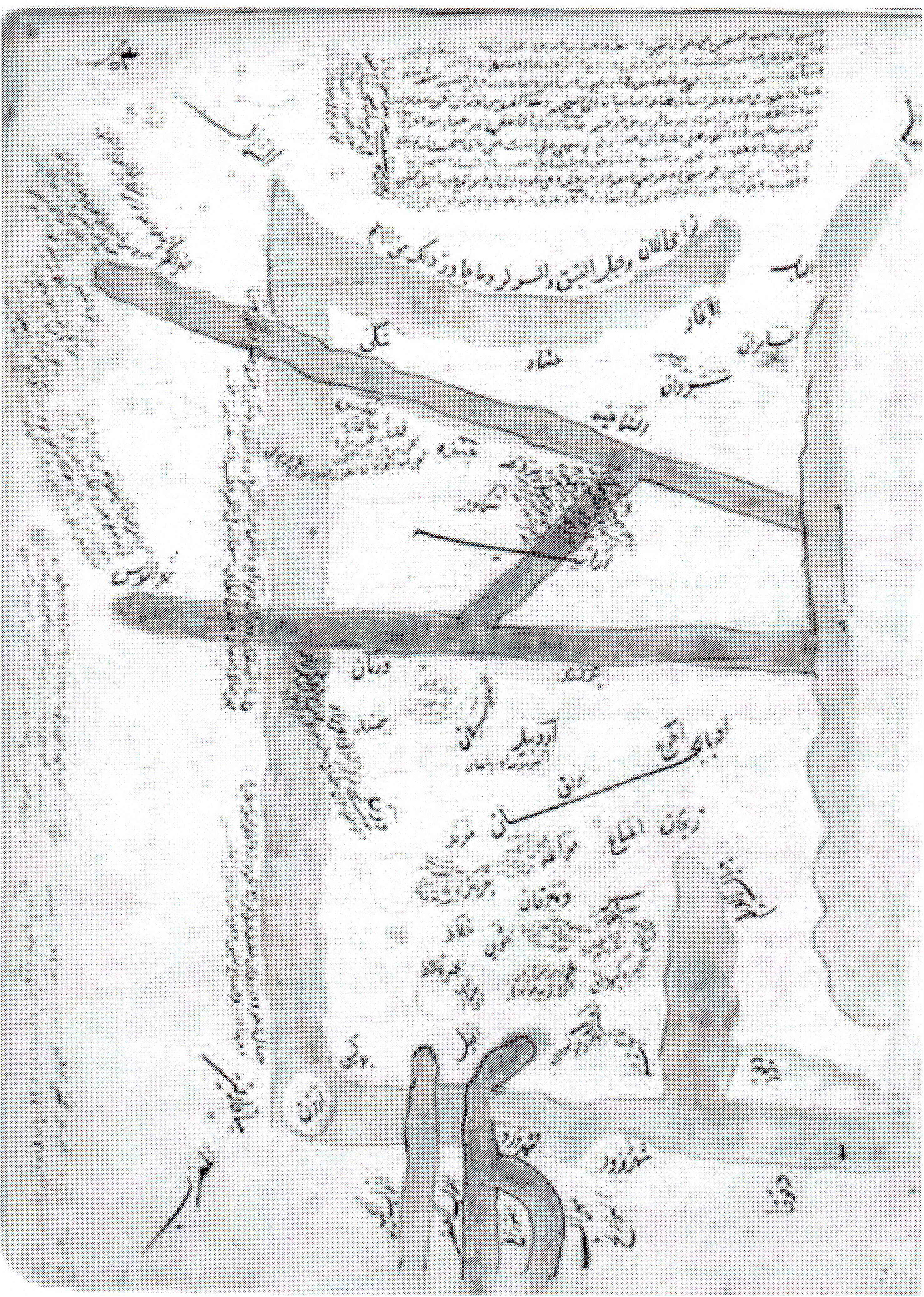 Ibn Hawqal’s map of Armenia, Azerbaijan and Arran (Albania), which shows their relative positions. Arran is north of the Arax and Kura rivers, while Azerbaijan is south of the Arax River. From Ibn Hawqal’s Surath ul-Ardh, BNF Paris, MS Arabe 2214, p. 58, 1145 AD.